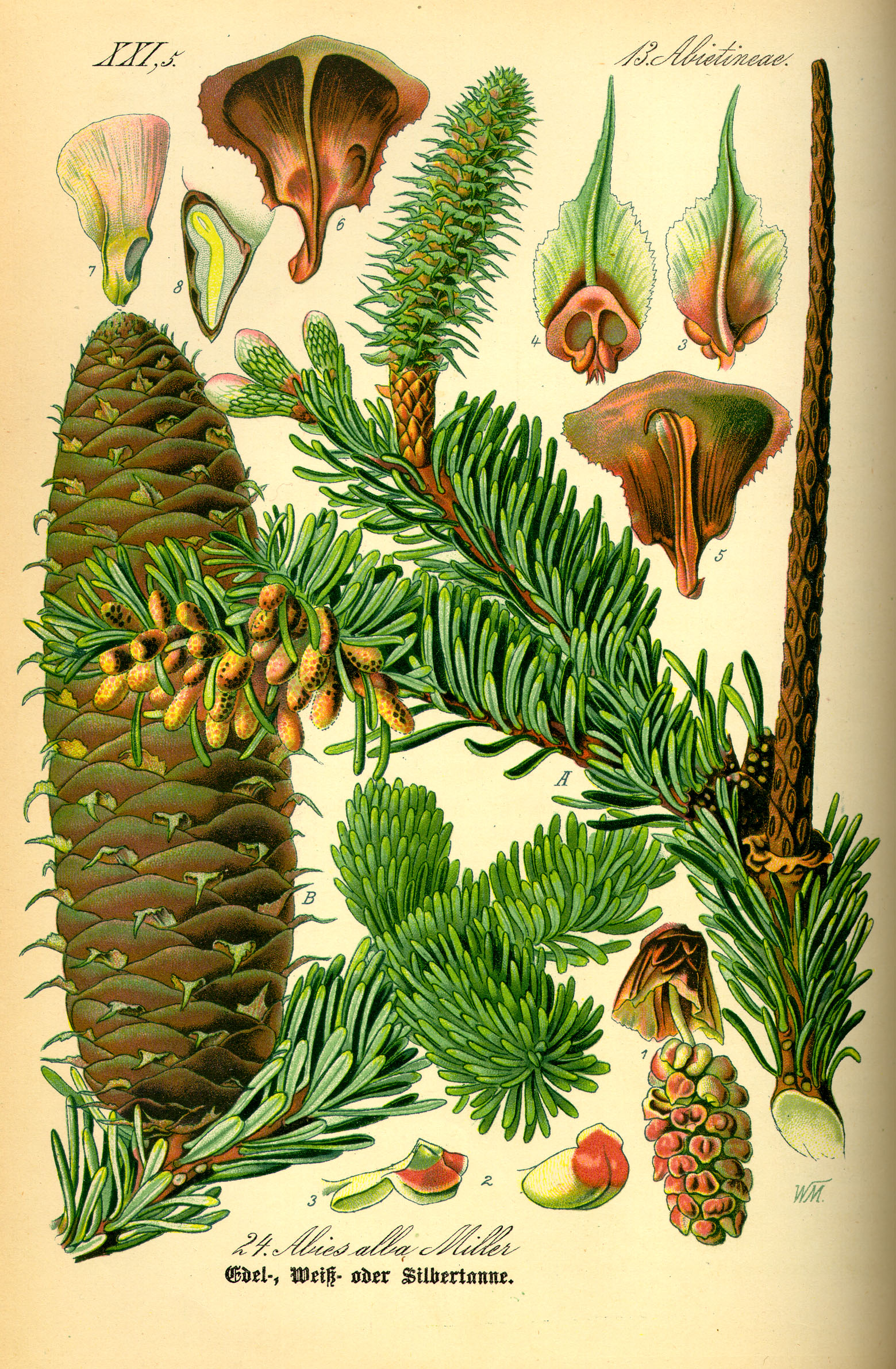 Name Abies alba Family Pinaceae